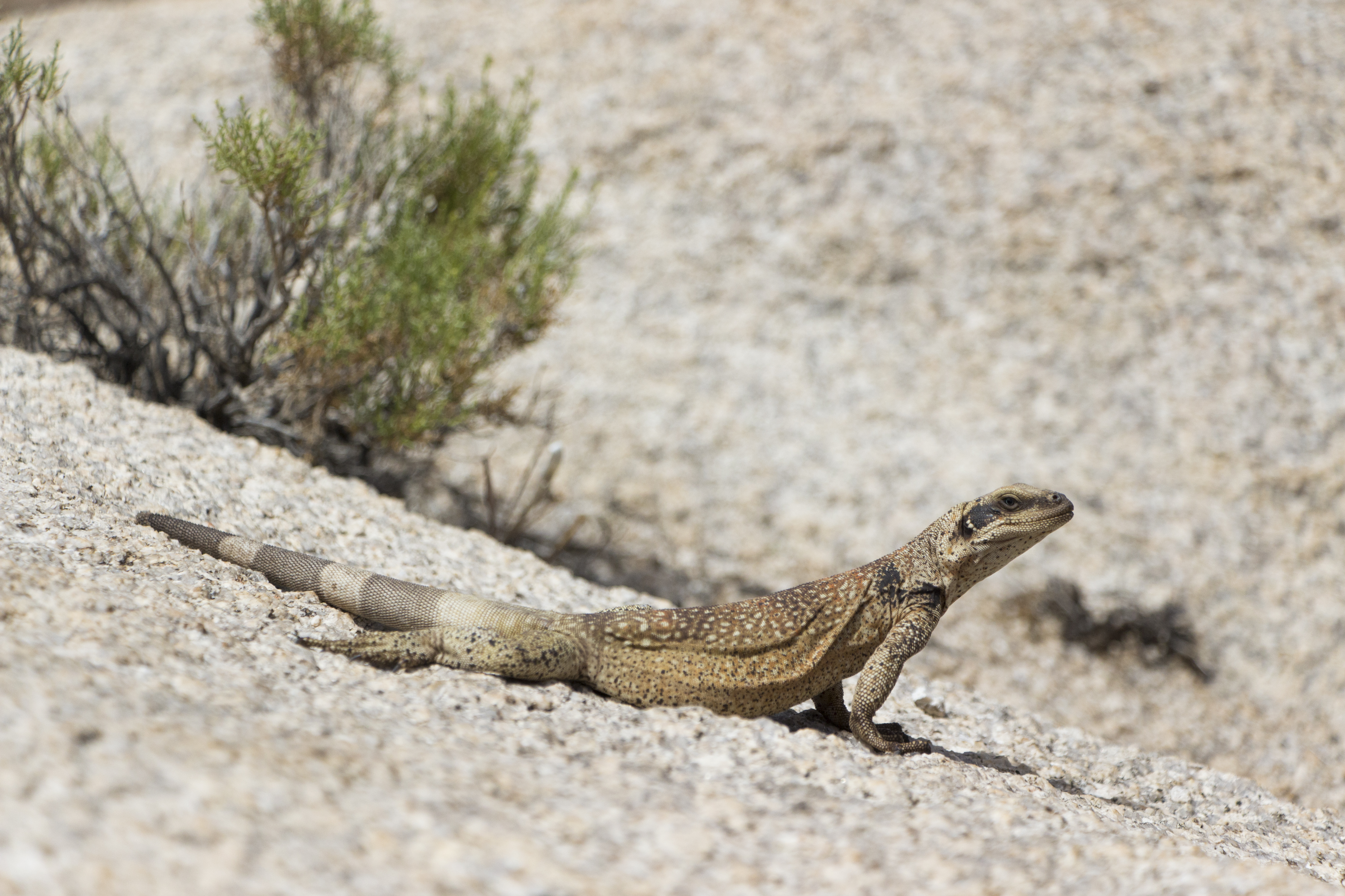 Chuckwalla (Sauromalus ater), Joshua Tree National Park. NPS/Brad Sutton